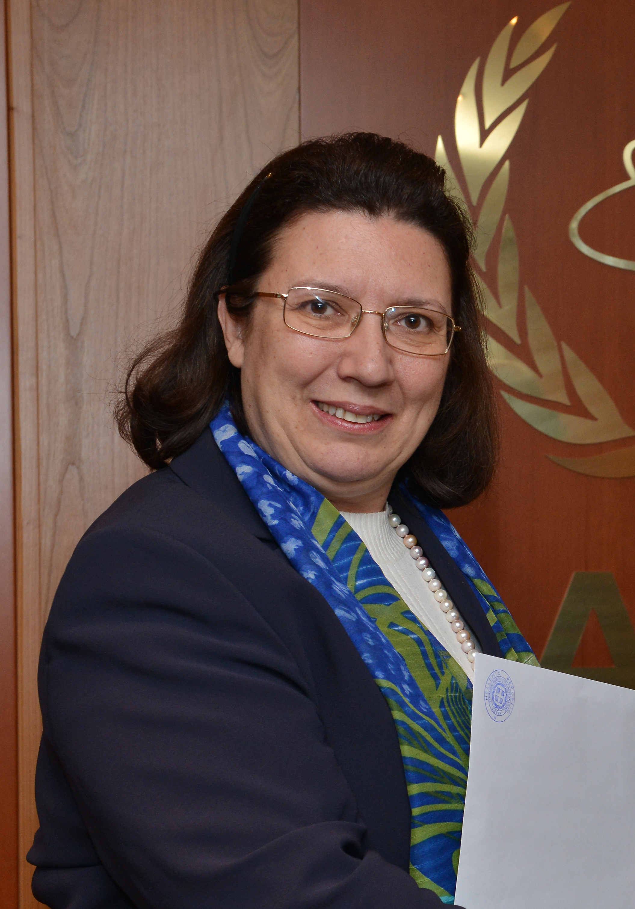 Presentation of credentials by the new Resident Representative of Greece, HE Ms Chryssoula Aliferi, to IAEA Director General Yukiya Amano. IAEA, Vienna, Austria, 16 April 2014. Photo Credit: Dean Calma / IAEA